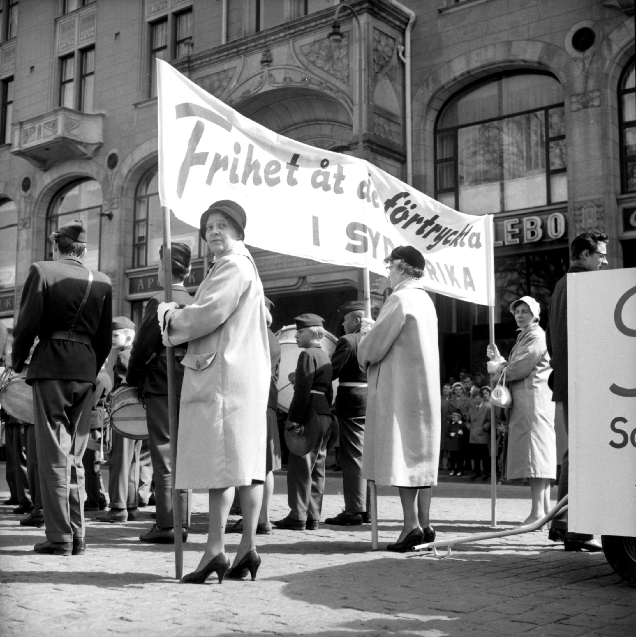 The May Day demonstration in 1960. The demonstration will start from Gustav Adolfs square in Malmö. Banner with the text "Freedom for the oppressed in South Africa."